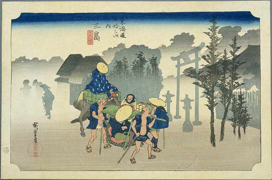 Mishima on the Tokaido, ukiyo-e prints by Hiroshige